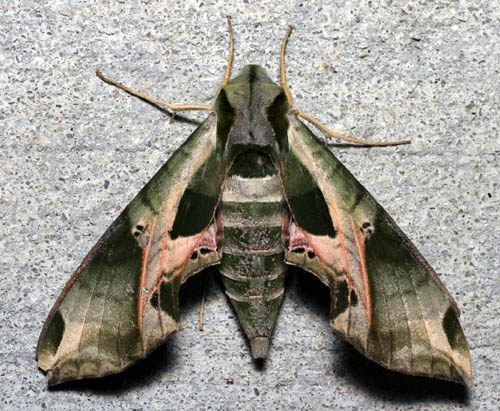 Pandorus Sphinx, Eumorpha pandorus, imago (adult), Durham, North Carolina, United States